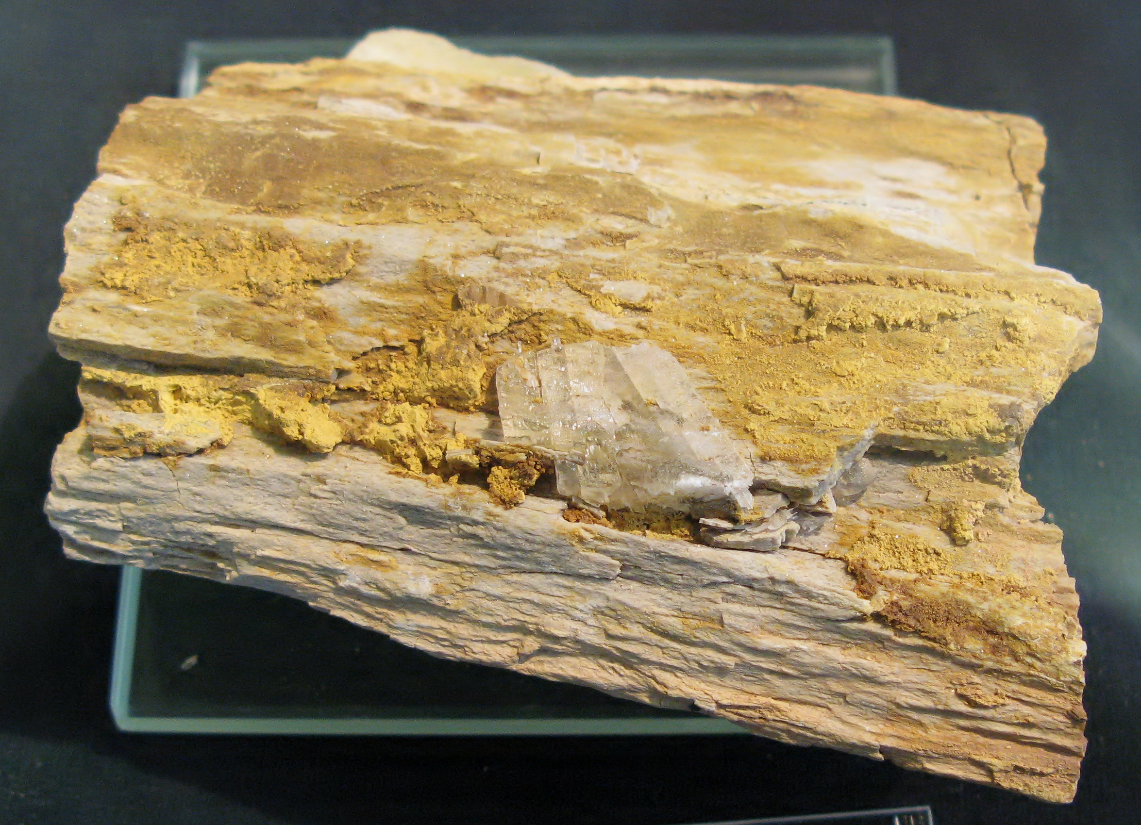 Carnotite on fossilized wood - Locality: St. George, Utah - Exposed in the Mineralogical Museum, Bonn, Germany